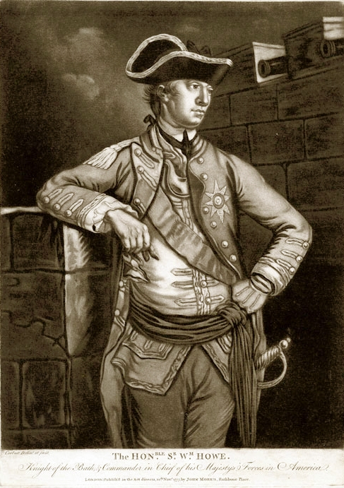 A black-and-white print of a mezzotint by Richard Purcell aka Charles Corbutt of British General Sir William Howe, 5th Viscount Howe. First published by John Morris, London, Rathbone Place, Nov. 10, 1777